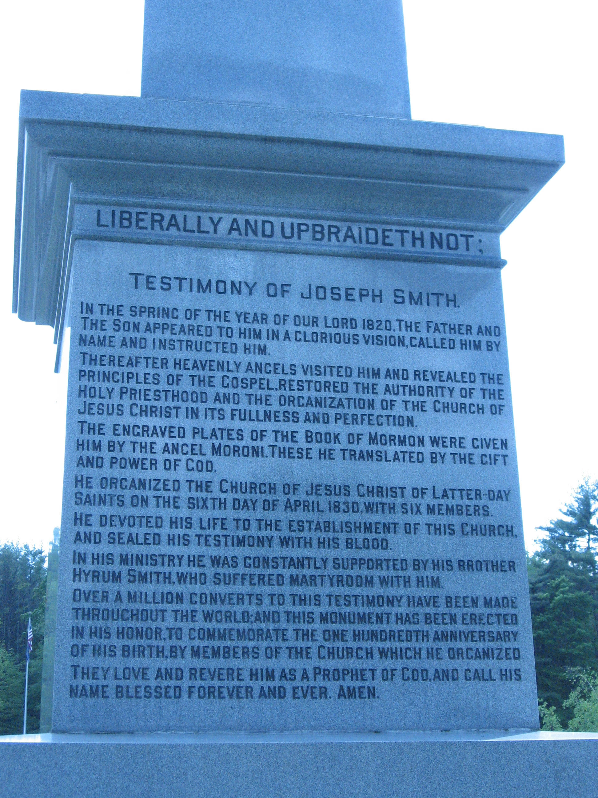 Testimony of Joseph Smith, Jr., inscribed on birthplace monument near Sharon, VT